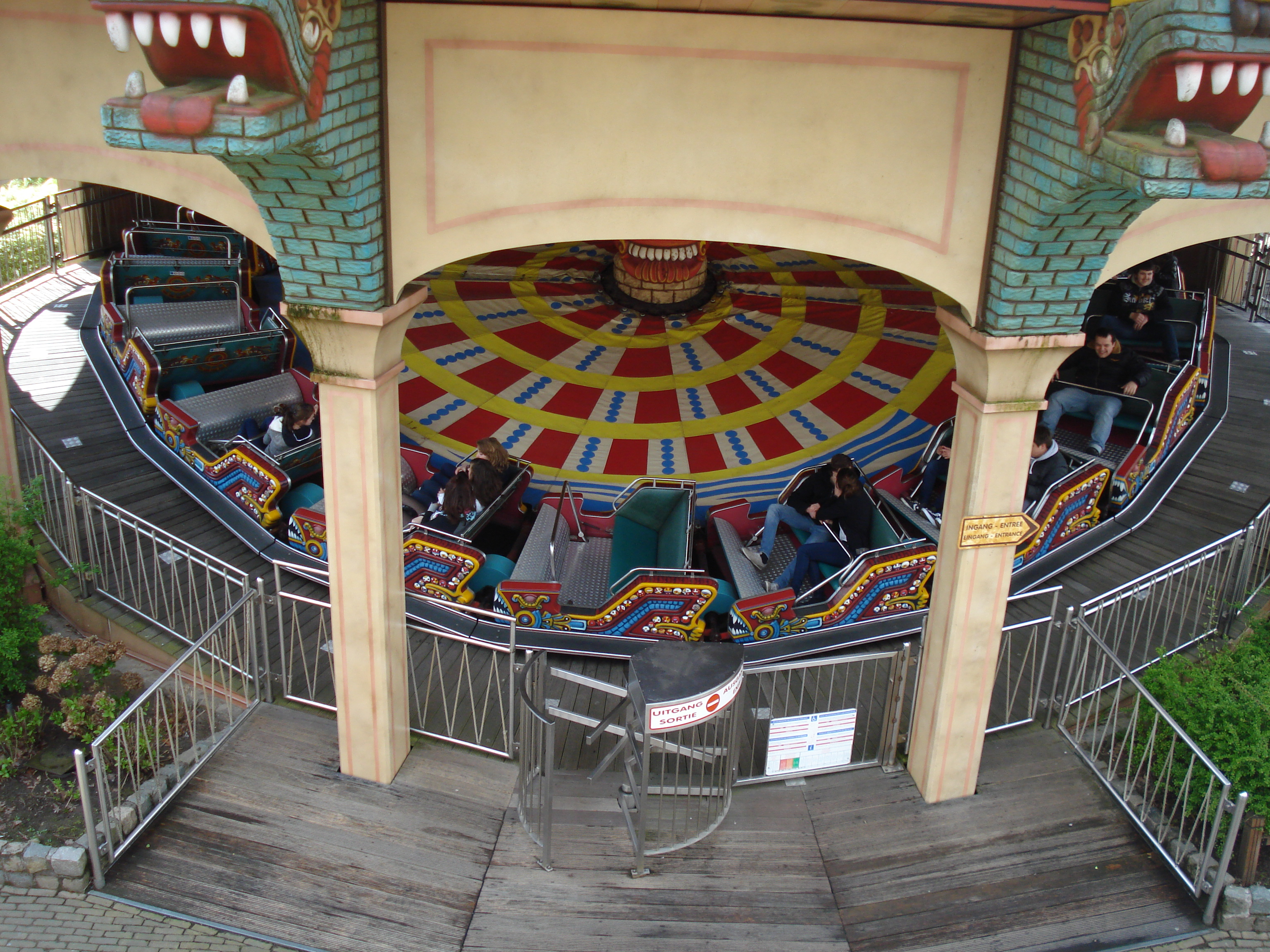 Bobbejaanland Aztek Express